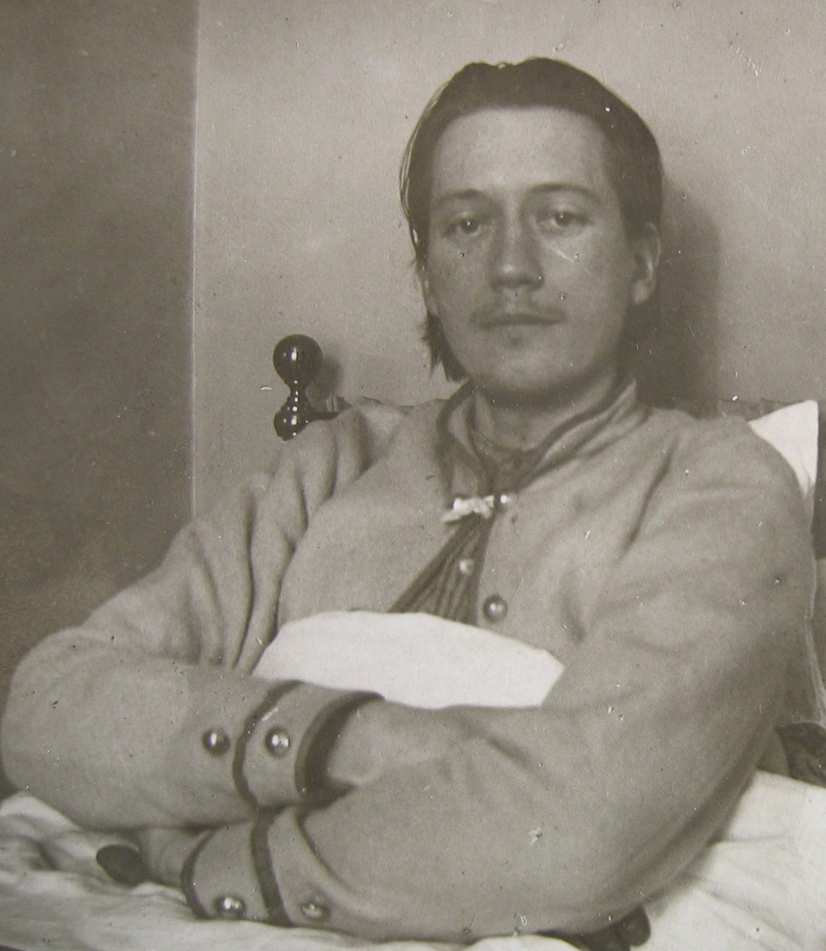 Olav Hurum, 1908